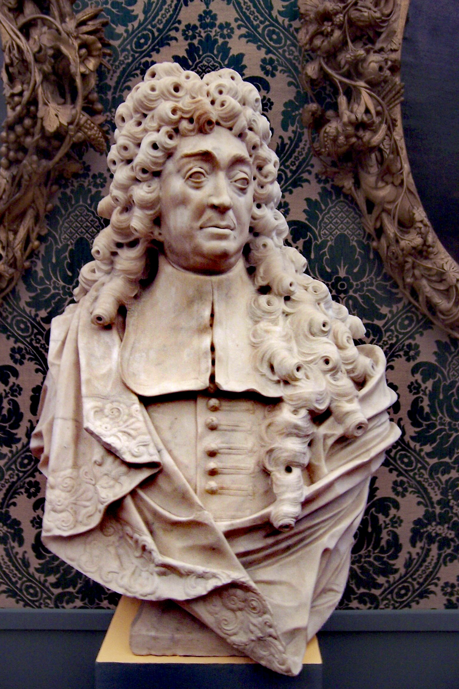 Part of the Fredenhagen-Altar in St. Marien, damaged in 1942, on display in St. Annen-Museum in 2009